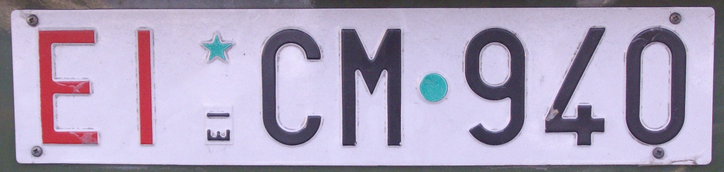 Italy, Vehicle registration plates of Italy, the registration plate in use for the Italian Army.